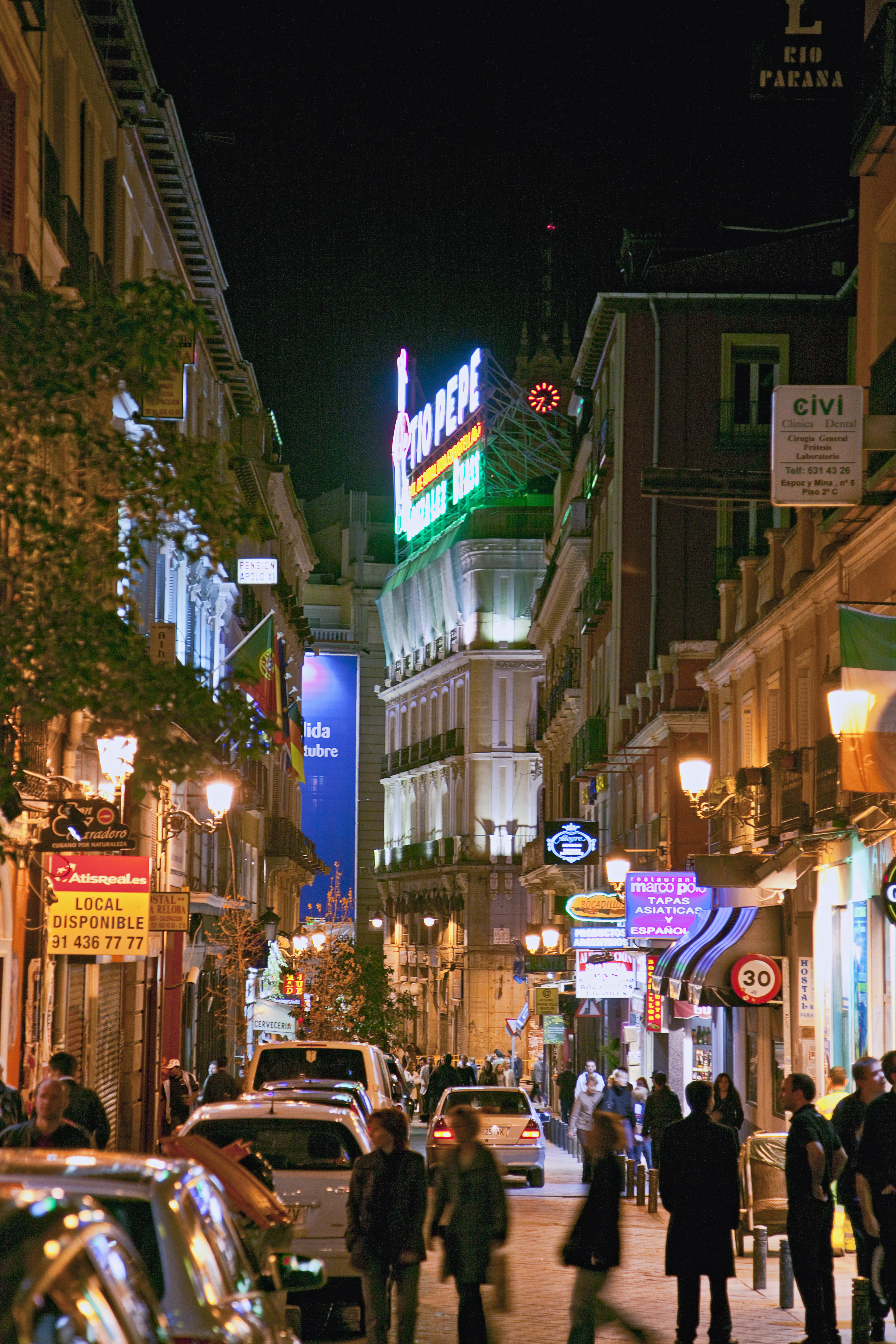 Madrid. Espoz y Mina street. Spain